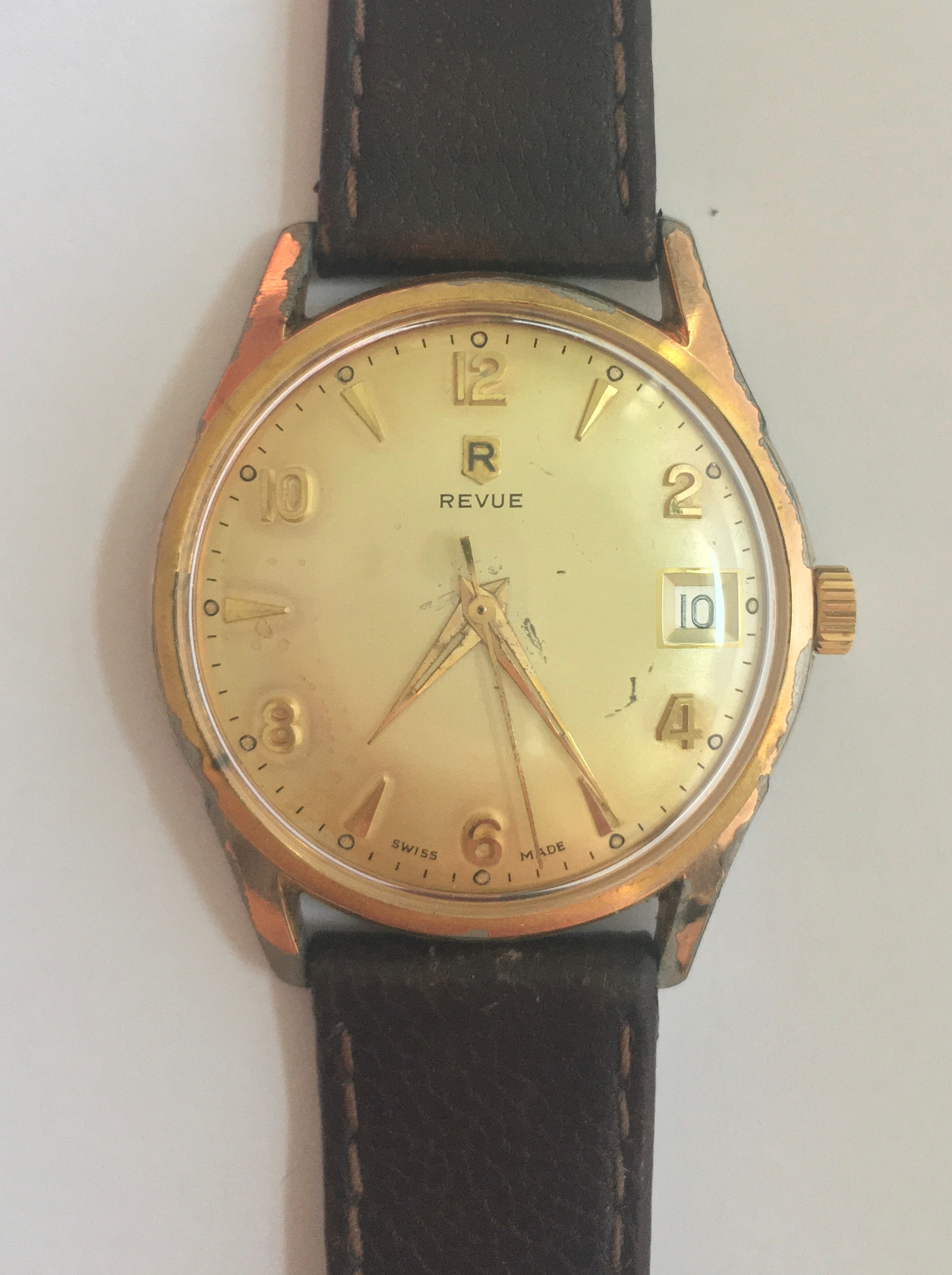 Watch made by Revue